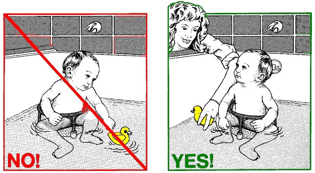 CPSC Warns of Drowning Hazard With Baby Bath Seats or Rings The U.S. Consumer Product Safety Commission is aware of 66 deaths associated with baby bath seats or rings since 1983. These bath rings usually contain three or four legs with suction cups that attach to the bottom of the tub. However, the suction cups may suddenly release allowing the bath ring and baby to tip over. A baby may also slip between the legs of the bath ring and become trapped under it. Do not rely on these devices to keep baby safe in the bath. Parents or other attendants must never leave a baby alone in these bath support rings. Even turning away to answer the doorbell or telephone could result in injury or drowning of the baby.